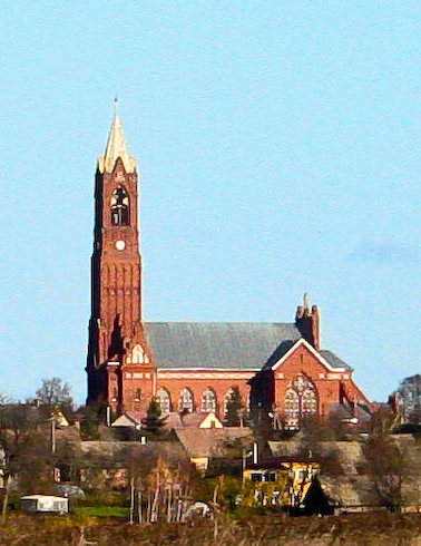 Roman Catholic church of Sasnava, Lithuania